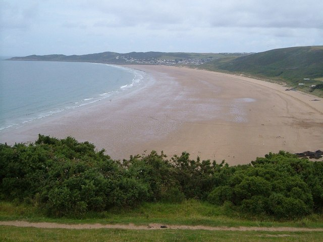 Putsborough Sands Seen from Georgeham Footpath 25 above Napps Cliff, with Woolacombe in the distance.